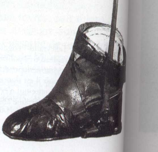 Photograph of the famed orthopedic shoe of French diplomat and statesman Charles-Maurice Talleyrand-Perigord. Today located in the Chateau de Valencay.